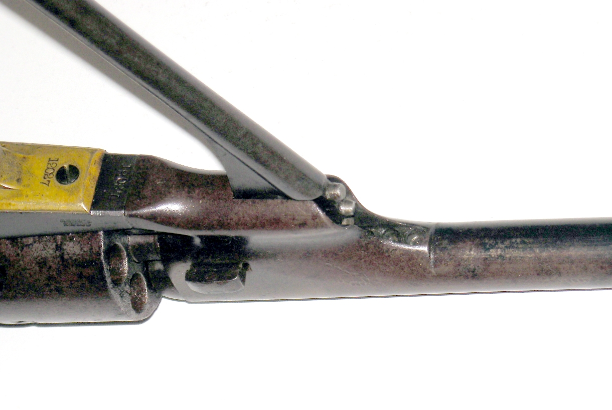 Colt Navy 61, creeping loading lever